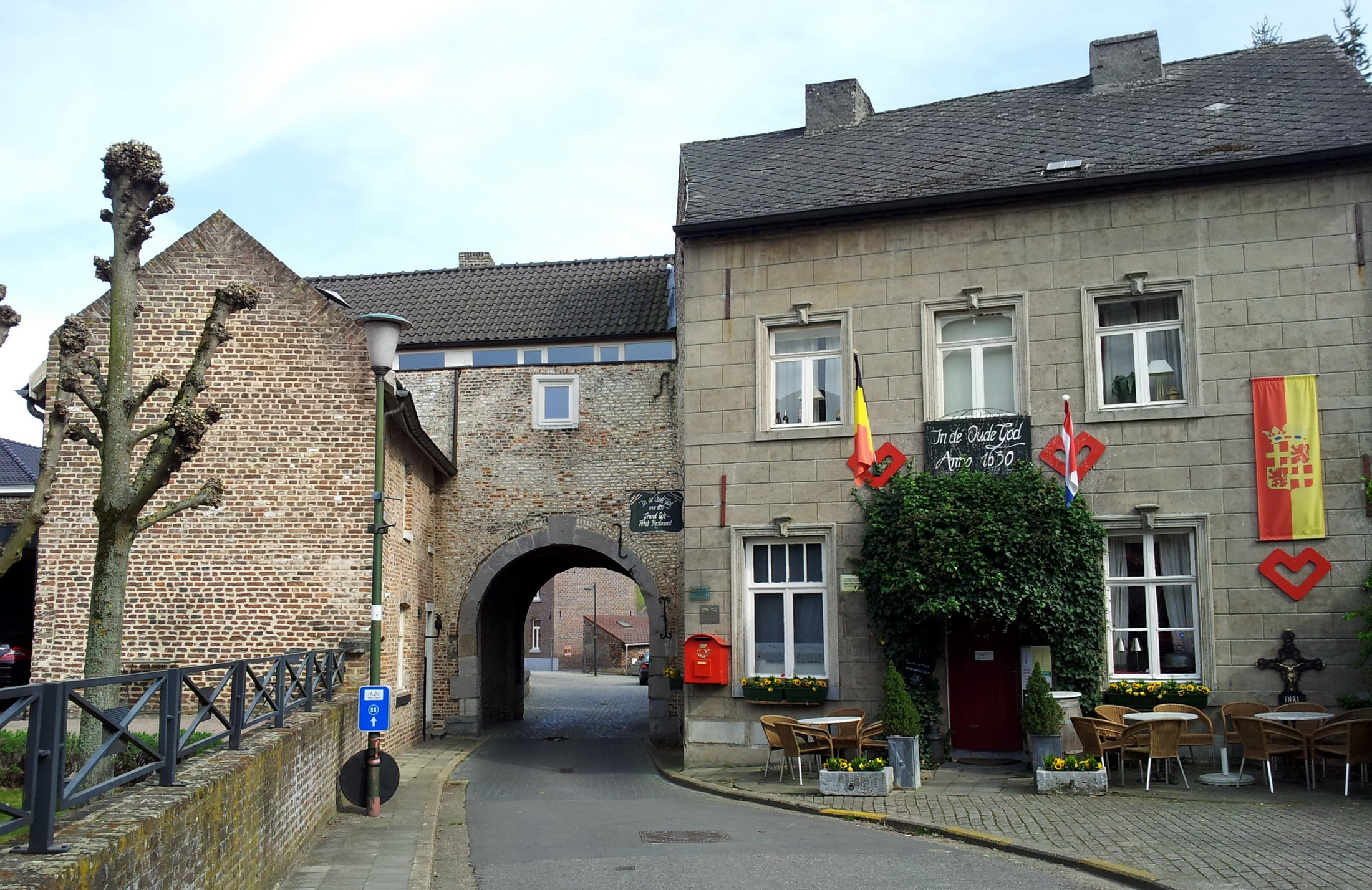 Oud-Rekem, Limburg, Belgium. View of Ucoverpoort.